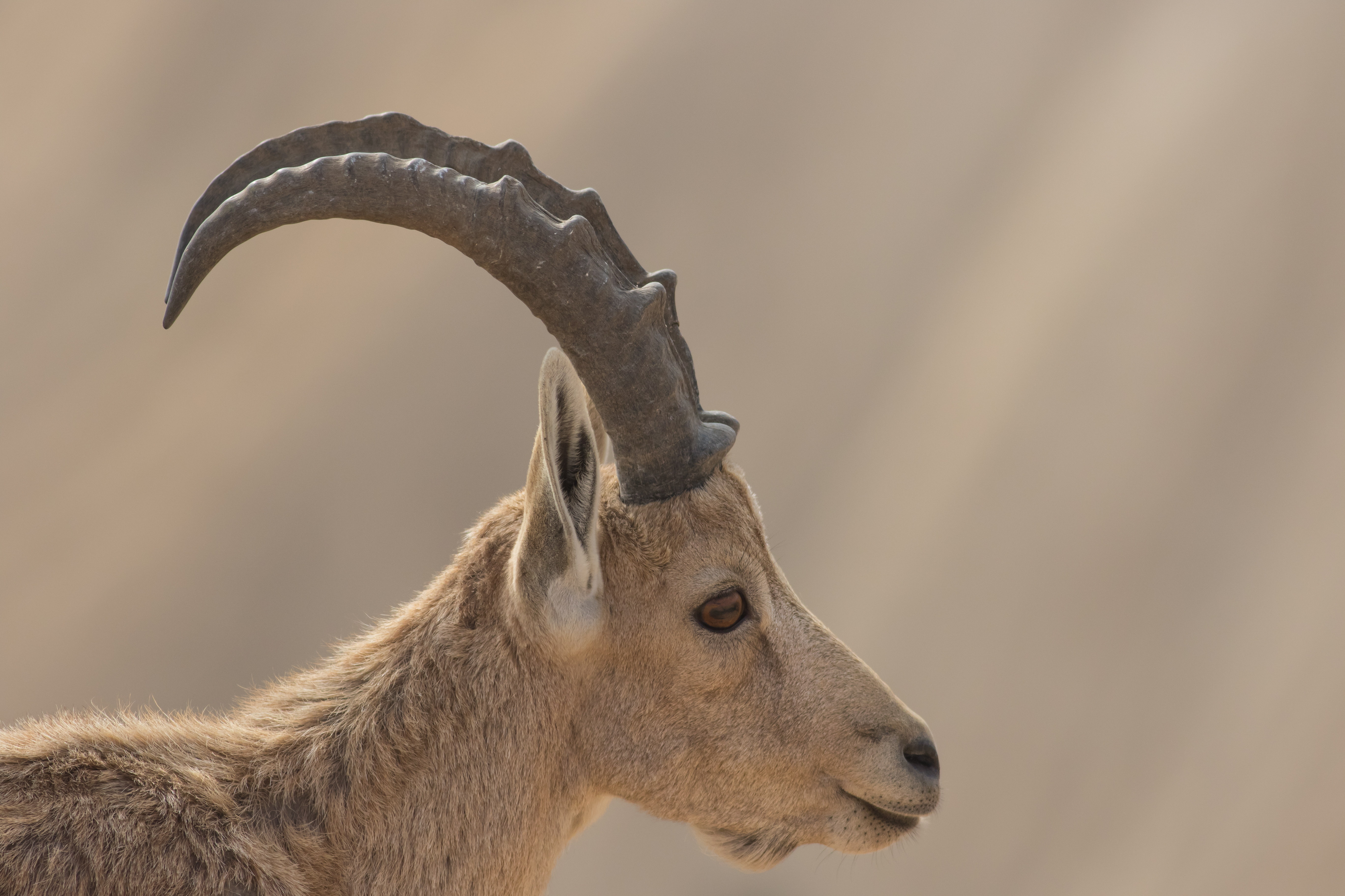 Nubian ibex (Capra nubiana), photo taken in Sde Boker, Israel.